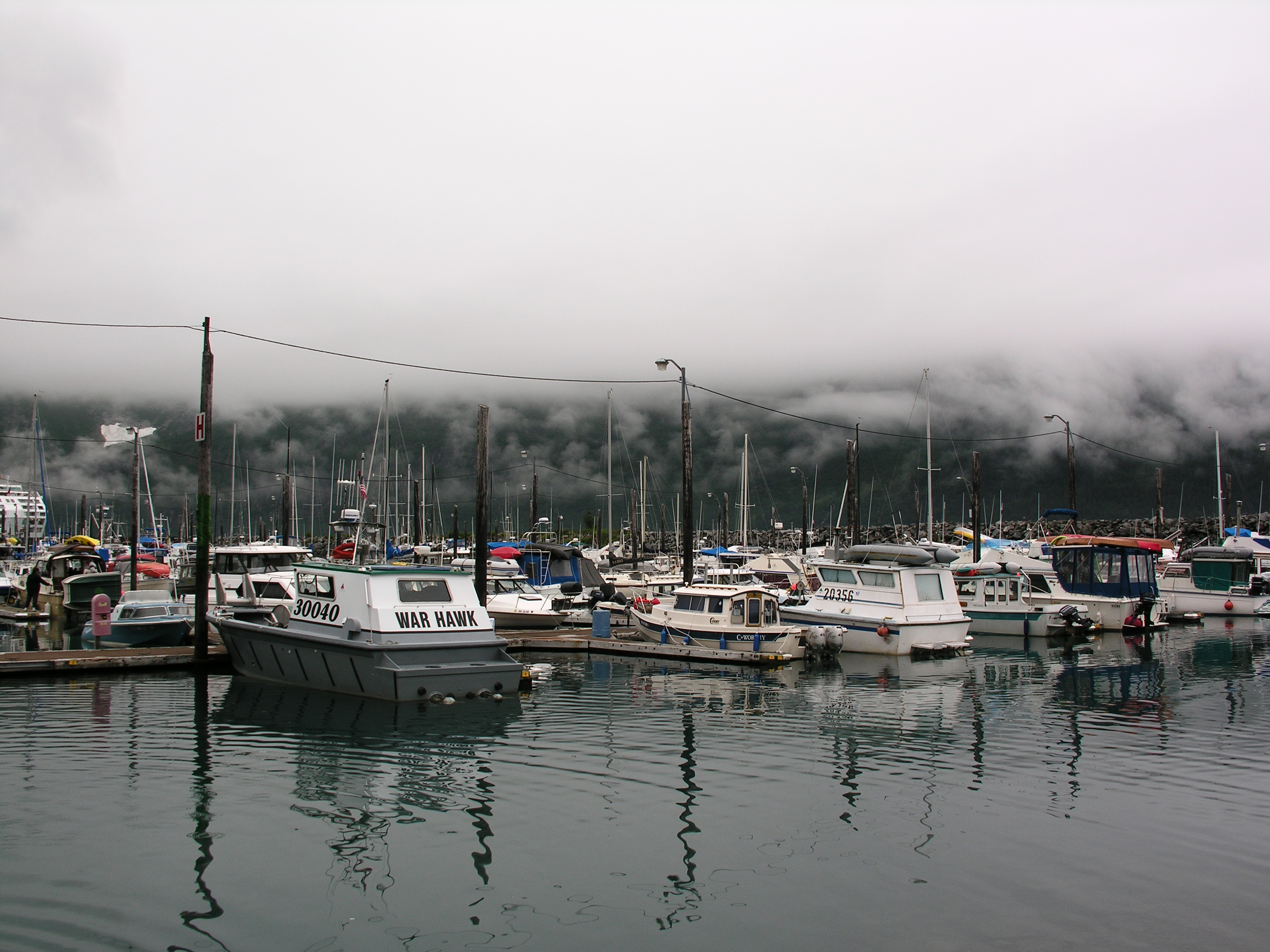 Whittier Harbor, Alaska. Picture was taken by me (127x0x0x1).